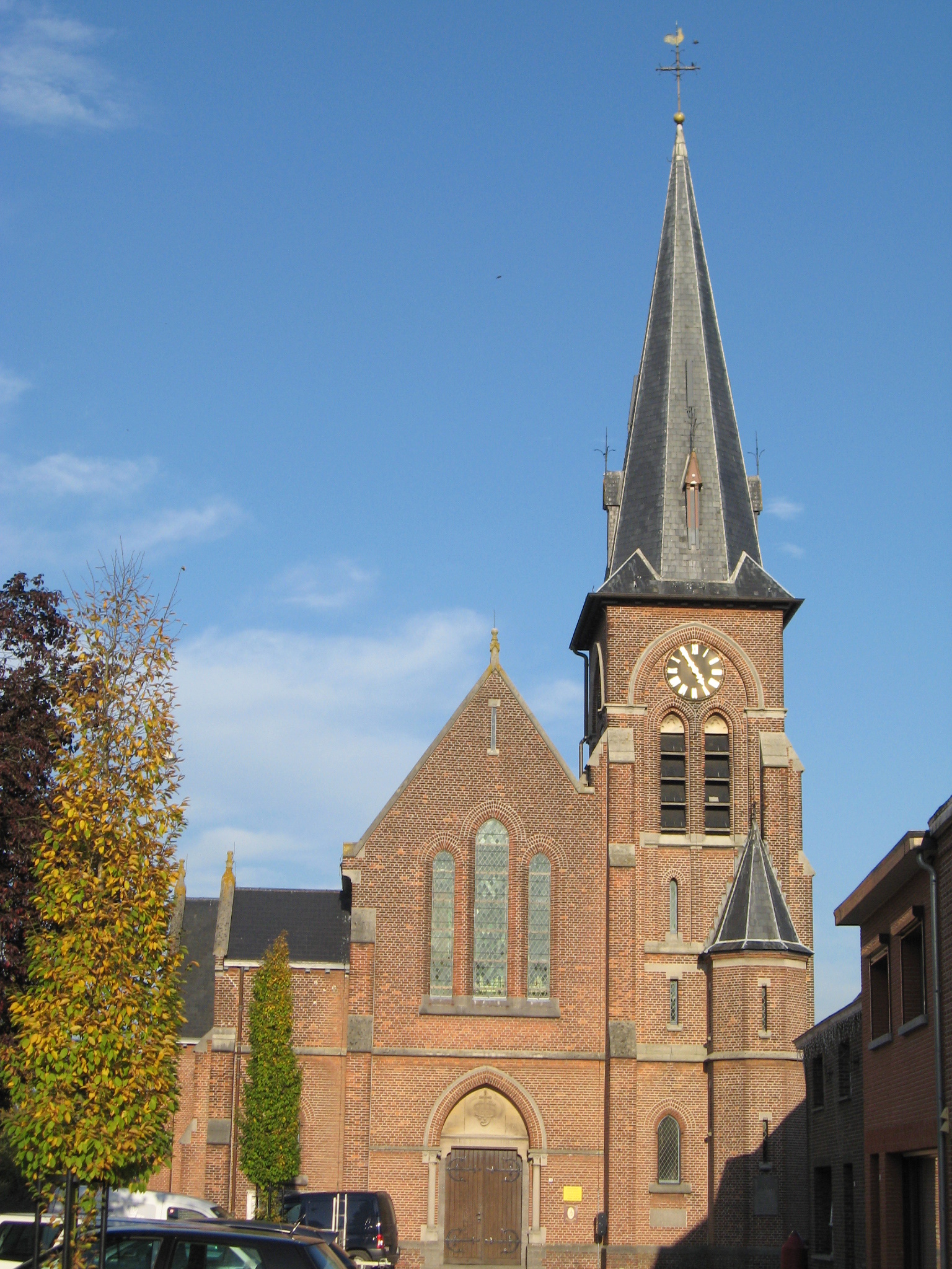 Church of Saint Lucia in Oosterlo, Geel, Antwerp, Belgium